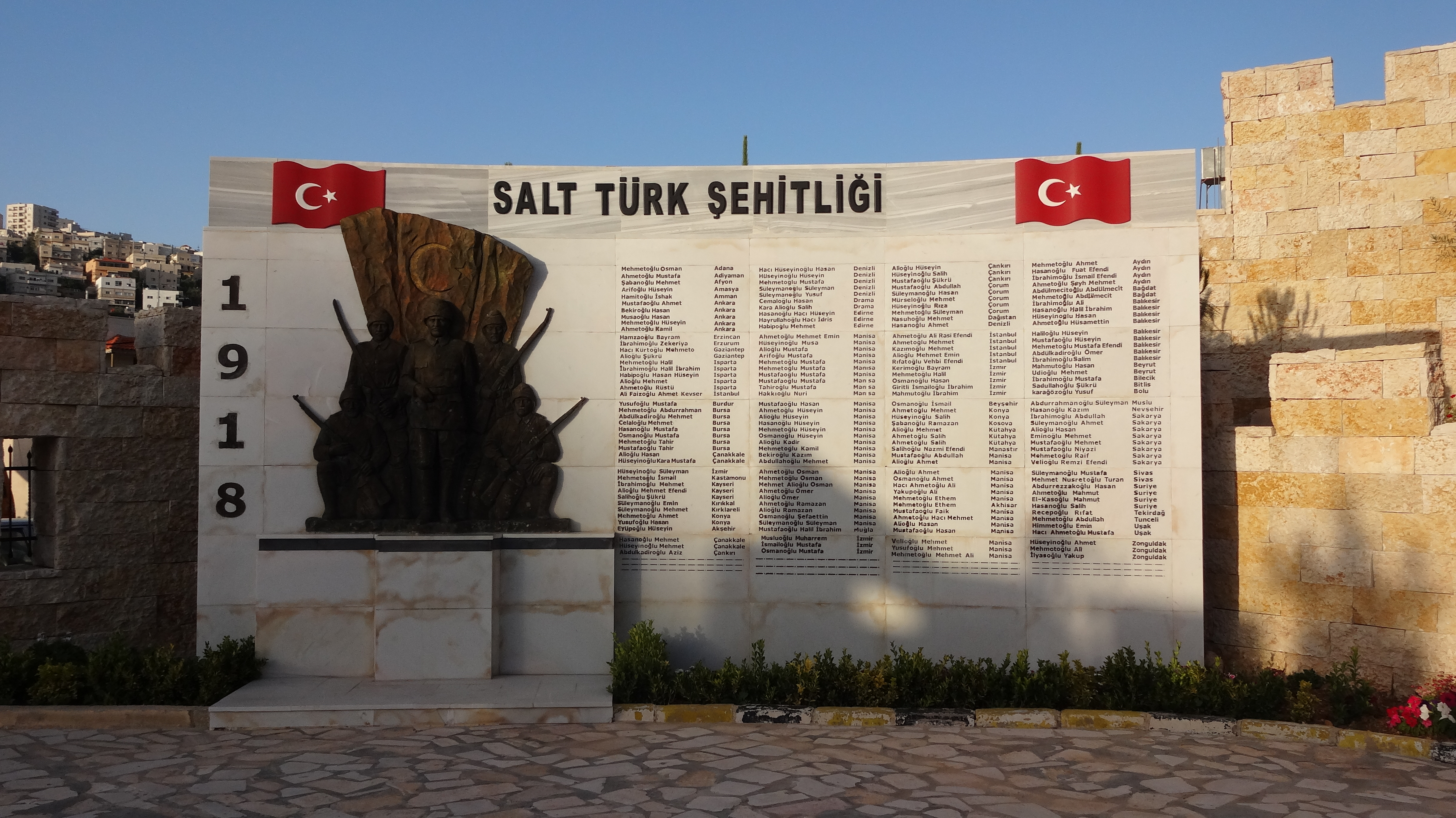 More than 300 Turkish soldiers, who fell during battles against the British in World War I, are buried at the cemetery in Salt, in a mass grave first unveiled in 1973. Afterwards, a memorial and museum were constructed on the site. In 2009, the museum next to the cemetery was opened by Turkish President Abdullah Gül during his official visit to Jordan. The museum includes pictures, artefacts and documents from the late Ottoman era.